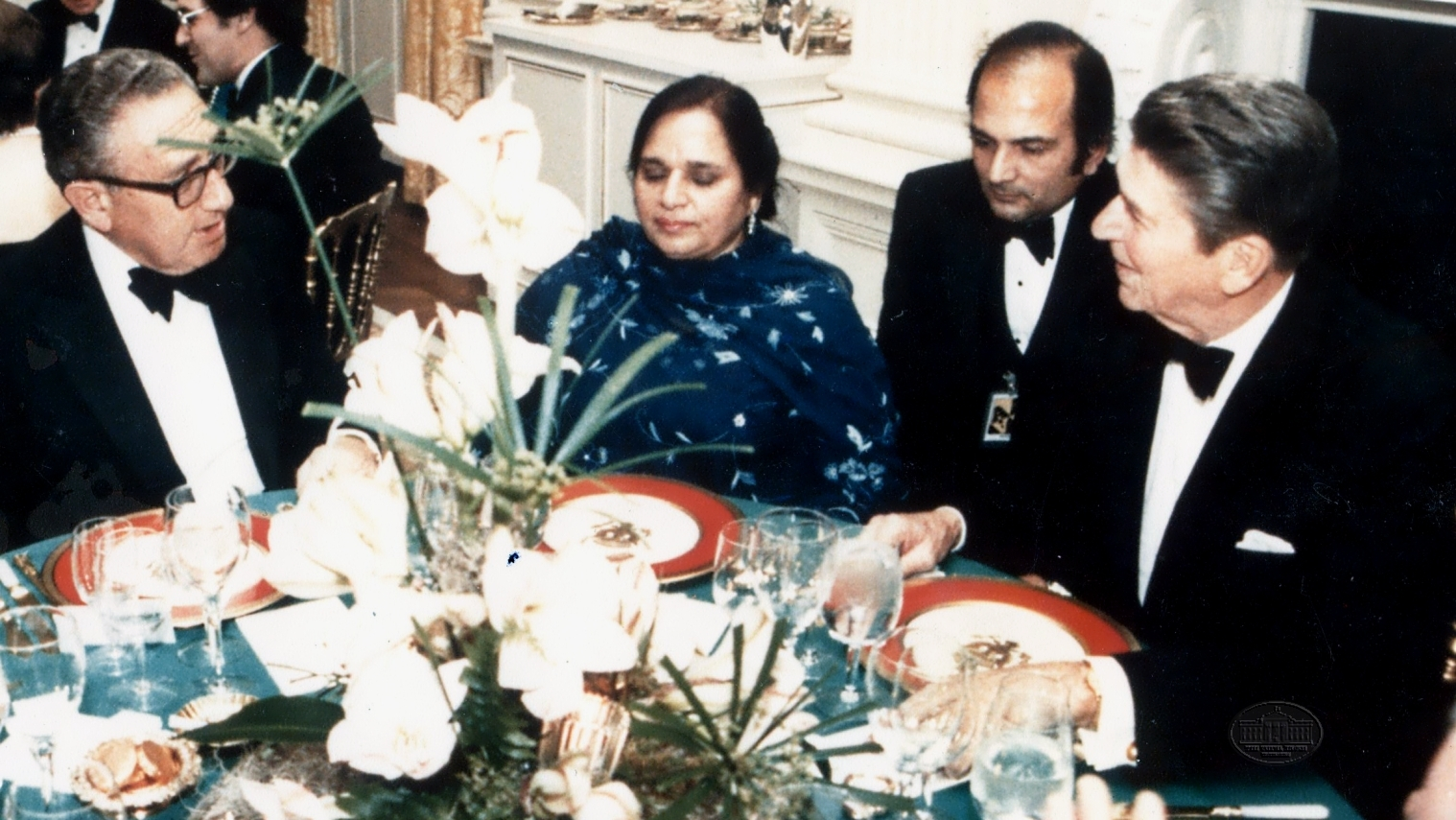 Dr. Shahzad Rizvi interpreting for President Ronald Reagan and former Secretary of State Dr. Henry Kissinger during a State dinner at the White House, December 7, 1982.